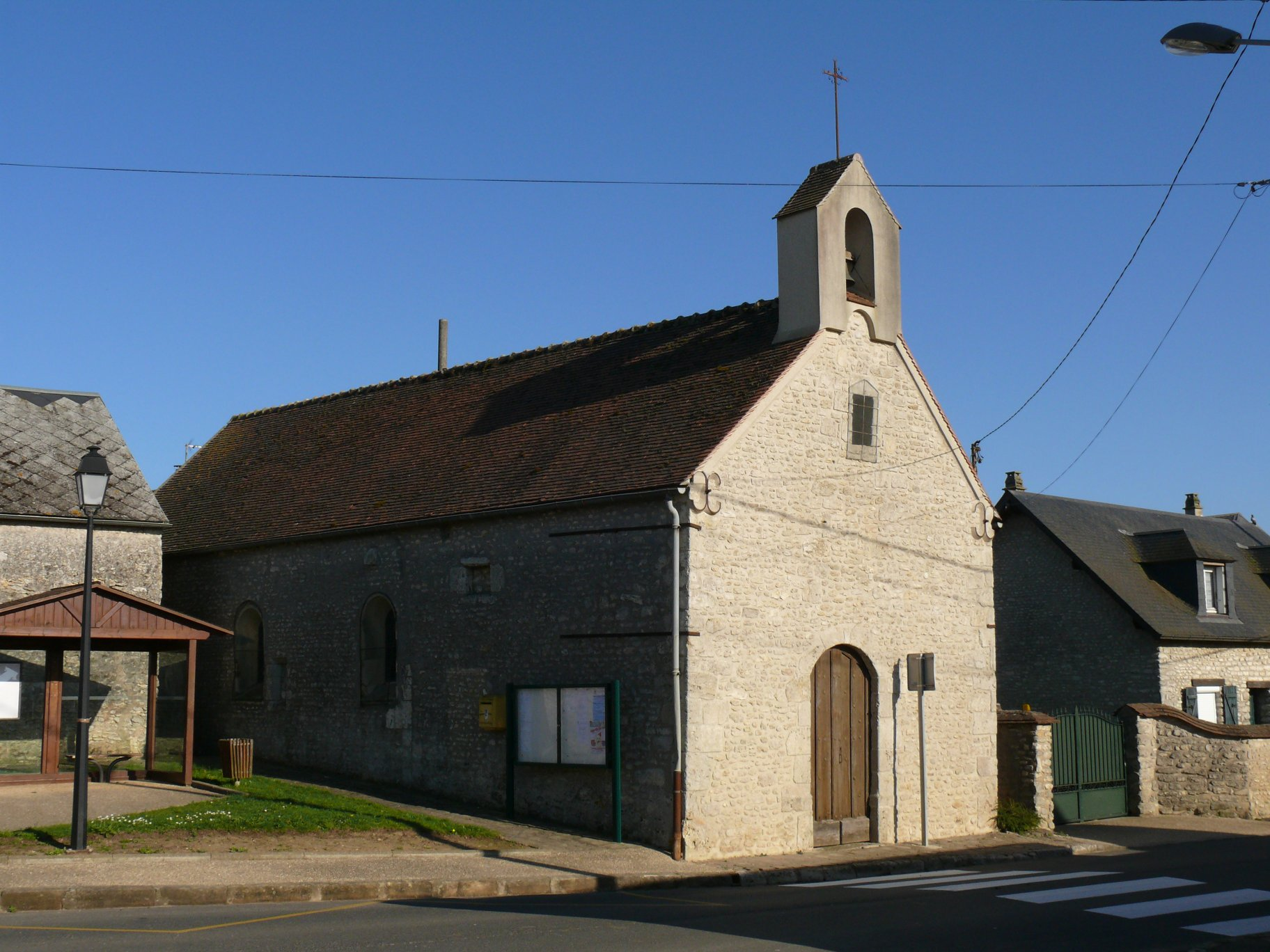 Saint-Roch's chapel of Villeneuve in Angerville (Essonne, Île-de-France, France).